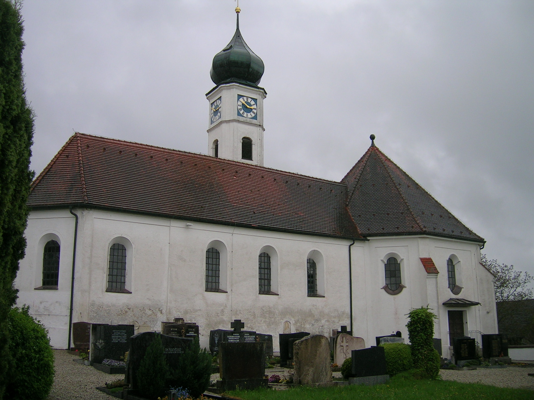 Catholic Church St. Petrus in Schweinersdorf (Wang), Bavaria